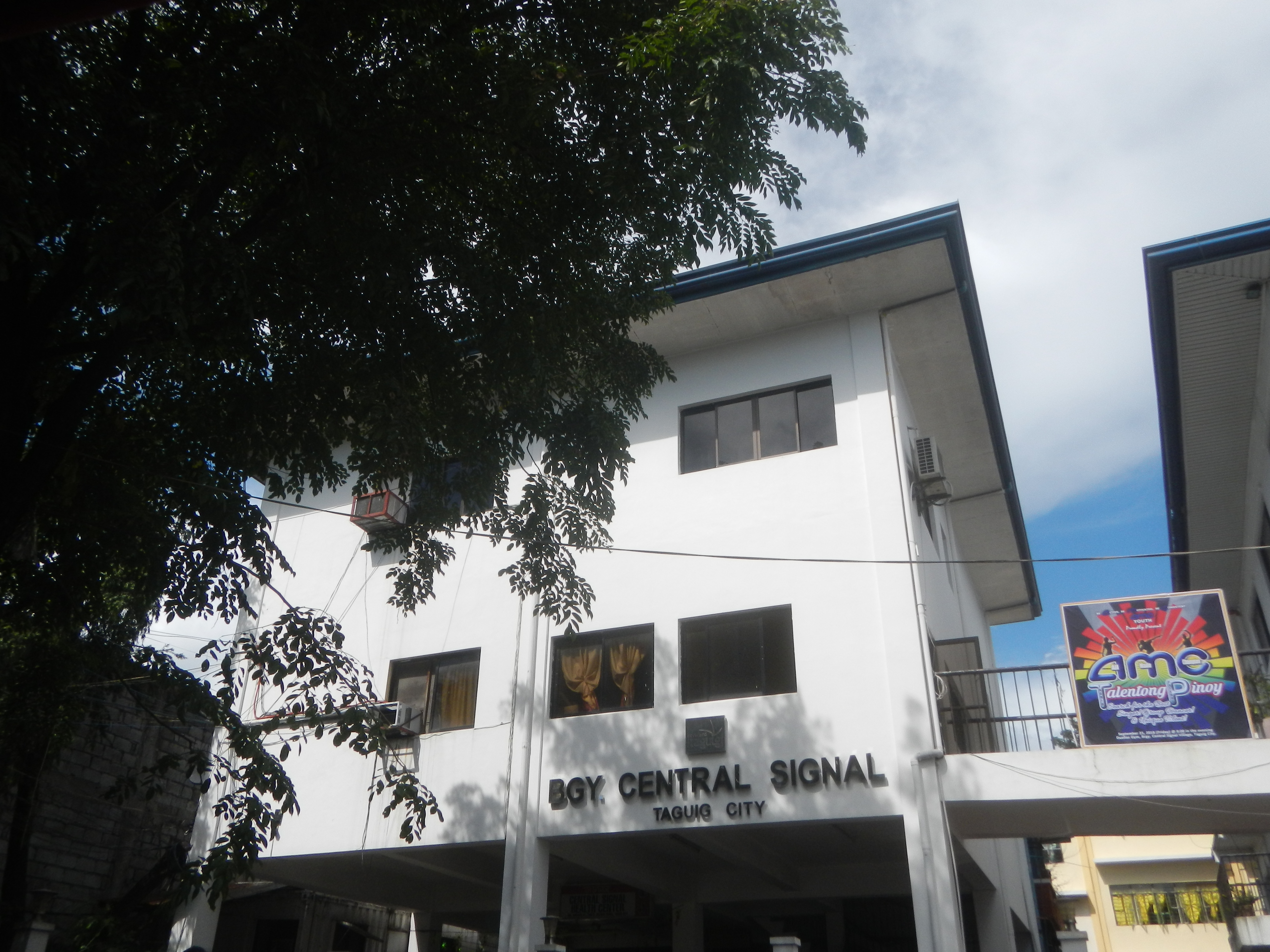 Santo Niño Catholic School (Zone 1, North Signal Village, Taguig City) Santo Niño De Taguig Parish Church (Zone 1, North Signal Village, Taguig City) Sampaloc Street Solemnly Dedicated April 1, 2017 Santuario del Amor Eterno (Zone 1, North Signal Village, Taguig City) Roman Catholic Diocese of Pasig Legislative district of Taguig City Legislative district of Pateros-Taguig City Barangays North Signal Village 14°30'54"N 121°3'21"E Central Signal Village Central Signal Village 14°30'42"N 121°3'18"E South Signal Village 14°30'15"N 121°3'17"E Katuparan 14°30'56"N 121°3'39"E Taguig City (Note: Judge Florentino Floro, the owner, to repeat, Donor Florentino Floro of all these photos hereby donate gratuitously, freely and unconditionally all these photos to and for Wikimedia Commons, exclusively, for public use of the public domain, and again without any condition whatsoever).